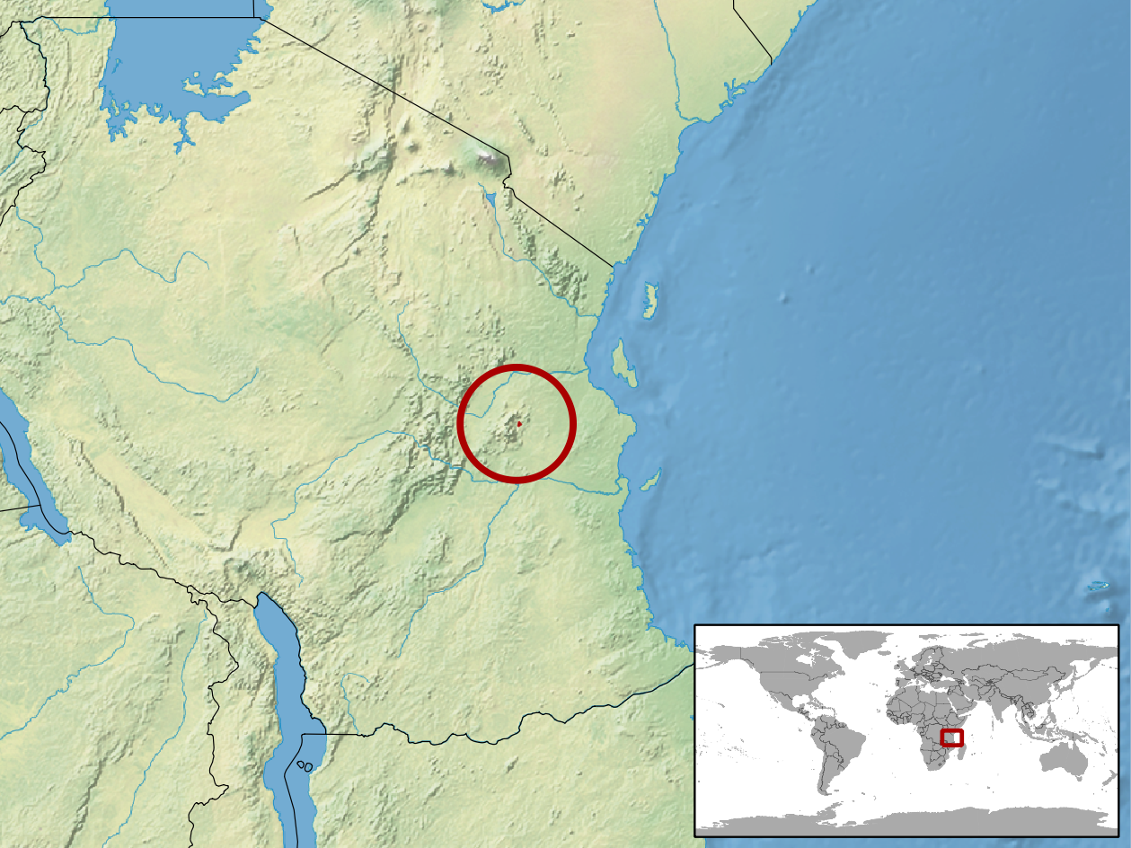 geographic distribution of Lygodactylus williamsi (Native: Tanzania, United Republic of)